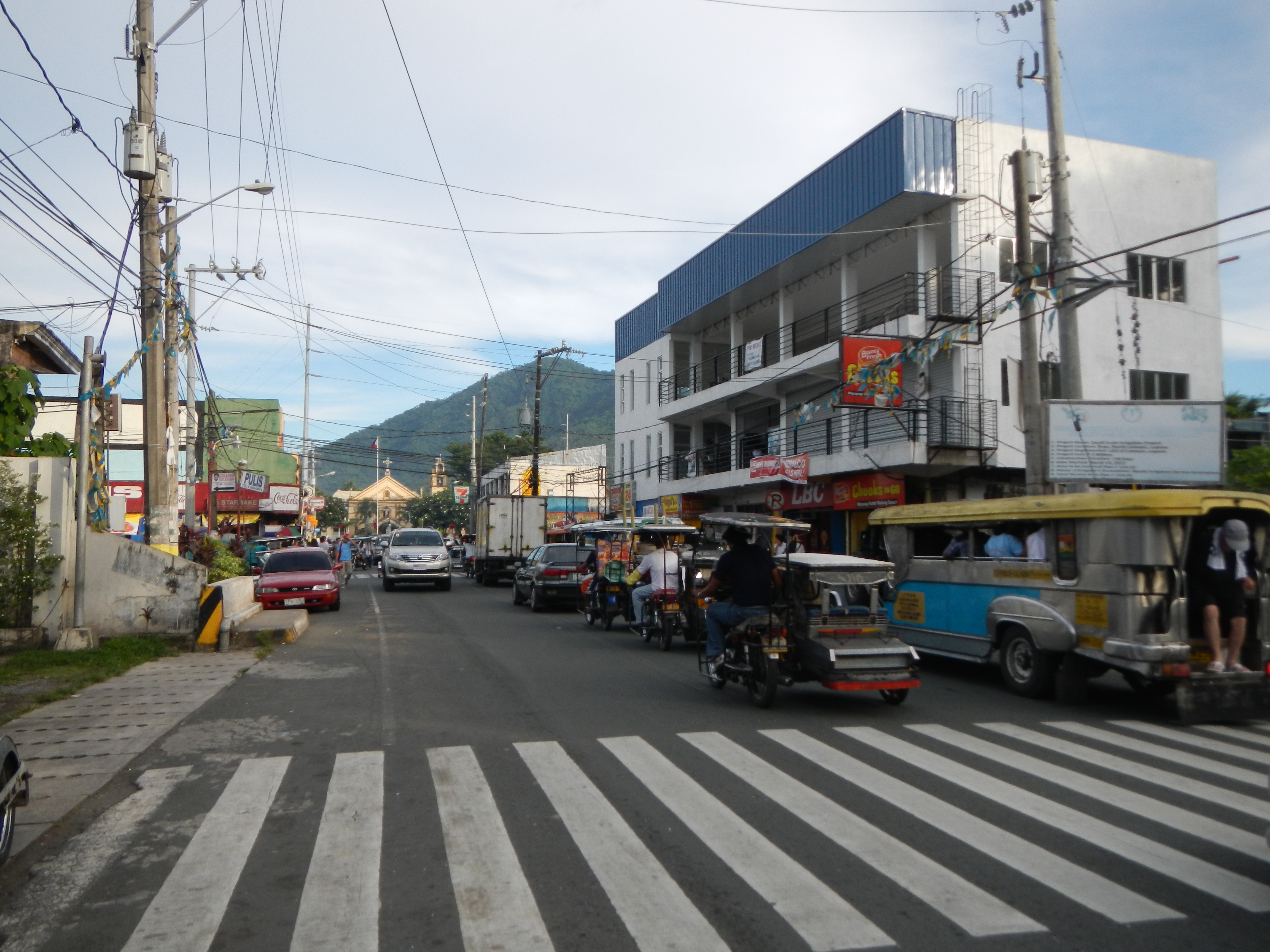 Downtown, Centro, including adjacent Barangay Silangan, Elementary School, Commercial center buildings, stores and Public Market, including Calauan Bank, Calauan, Laguna [1] is a second class municipality in the province of Laguna, Philippines. According to the 2010 census, it has a population of 74,890 people.Website The town got its name from the term kalawang, which means rust. Calauan is known for the Pineapple Festival, which is celebrated every May. In 1993, the town became the focus of media attention when Antonio Sánchez;[2] The Patron of Calauan is Saint Isidore the Laborer,[3] the patron of farmers.Website [4] Coordinates: 14°7'58"N 121°17'34"E Town Fiesta – May 15 Calauan “Pinya” Festival – May 11-15 2013 Election Results [5] Calauan lies at the foot of three connecting mountains (Mount Banahaw, Mount Tamlong, List of inactive volcanoes in the Philippines[6] - [7] San Pablo Volcanic Field and Imok hill). Calauan got its name from "kalawang," the Tagalog term for rust.